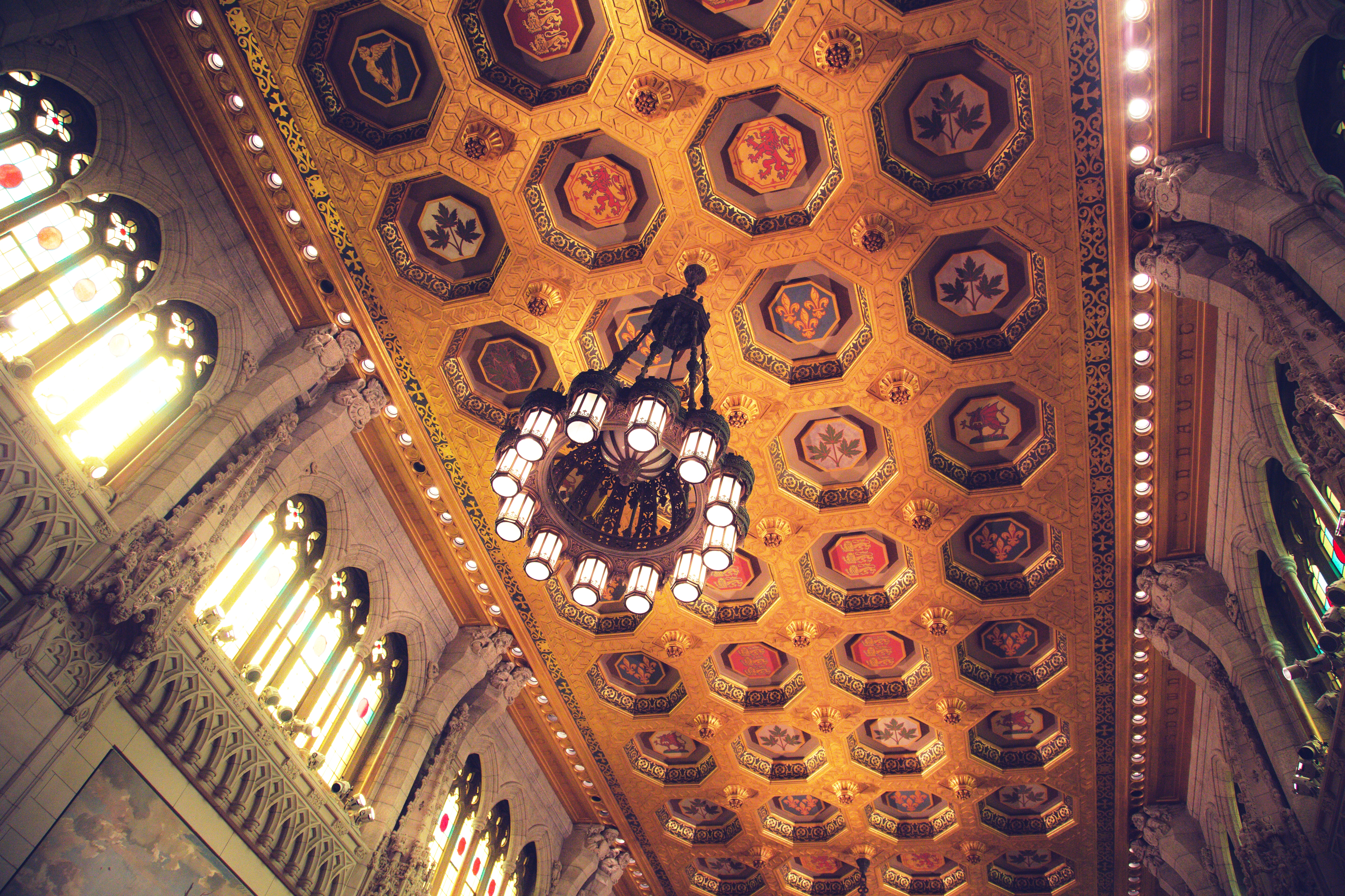 Ottawa - Parliament of Canada Licensing